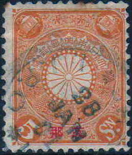 Japan 5 sen postage stamp overprinted for use at Japanese post offices in China.